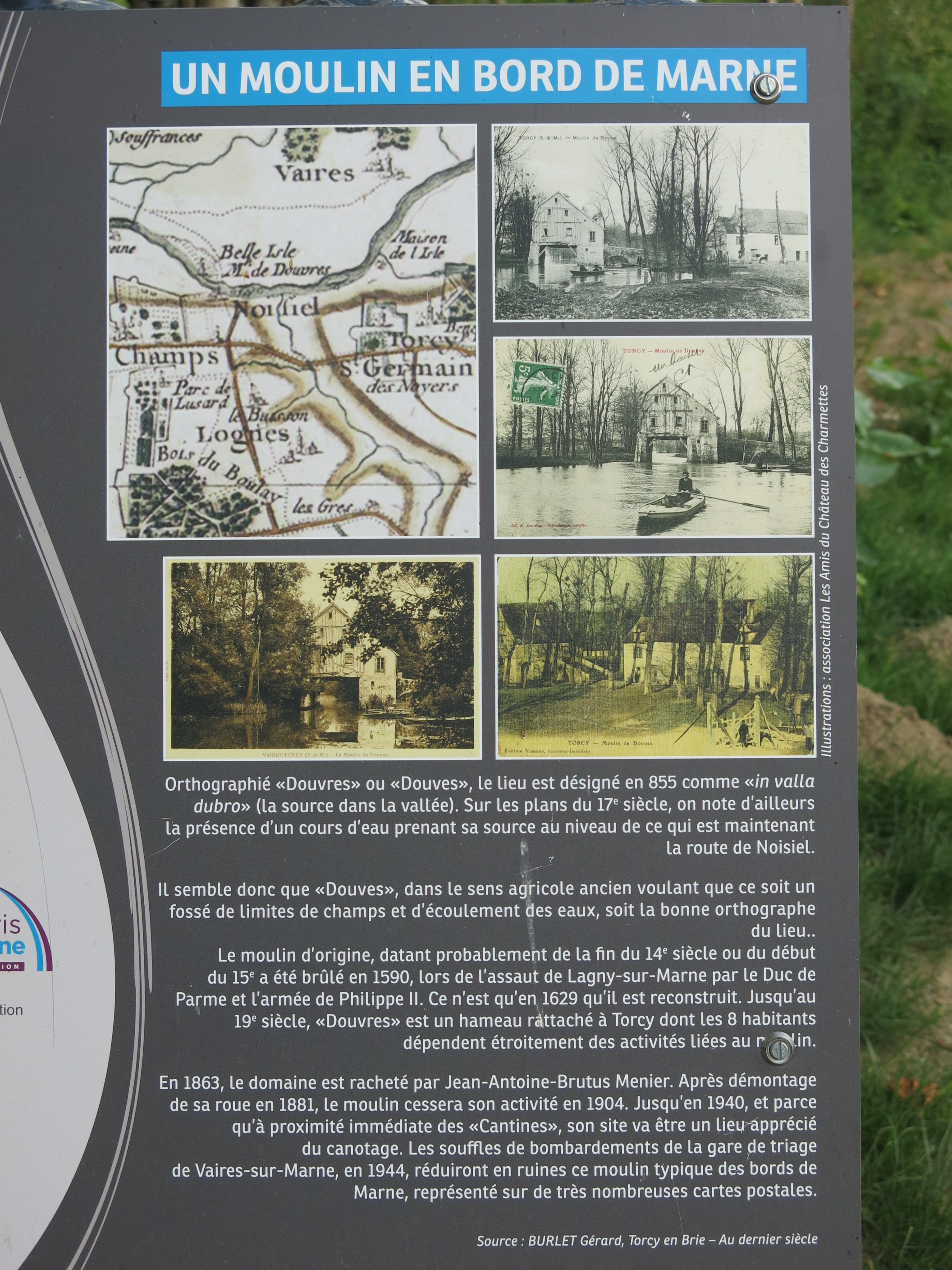 The information plaque of the moulin de Douvres (Torcy, Seine-et-Marne, France).